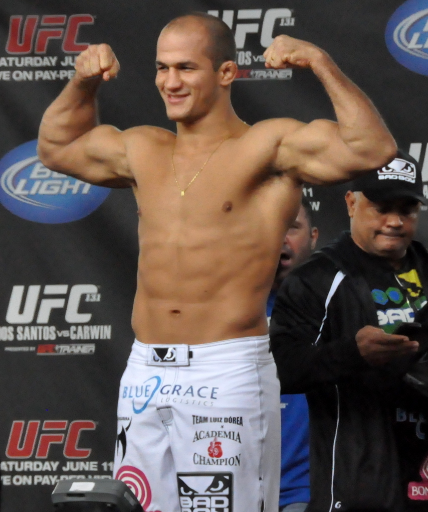 Junior "Cigano" Dos Santos at the weigh in for UFC 131.